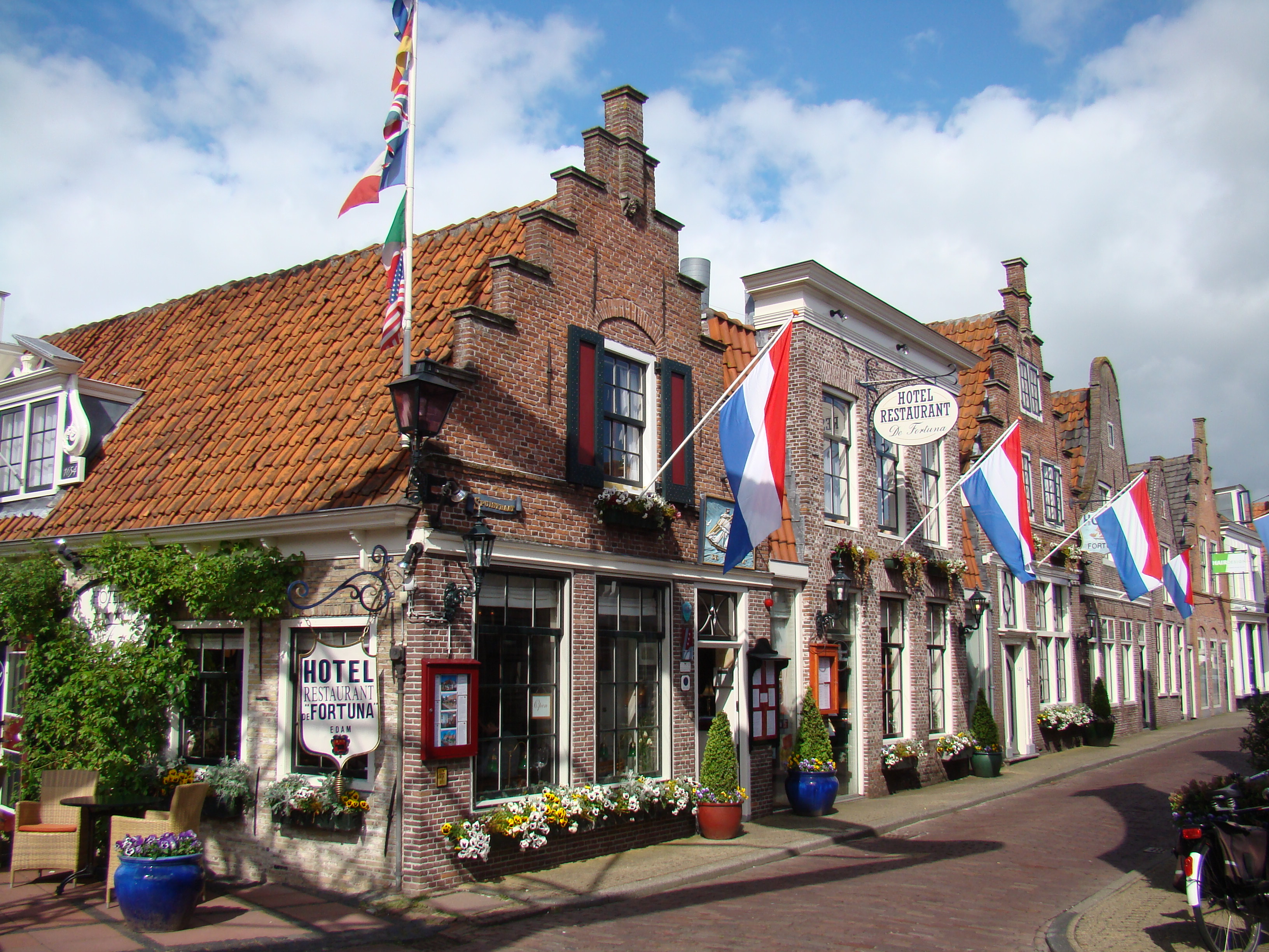 Monumental buildings in Edam (Netherlands)